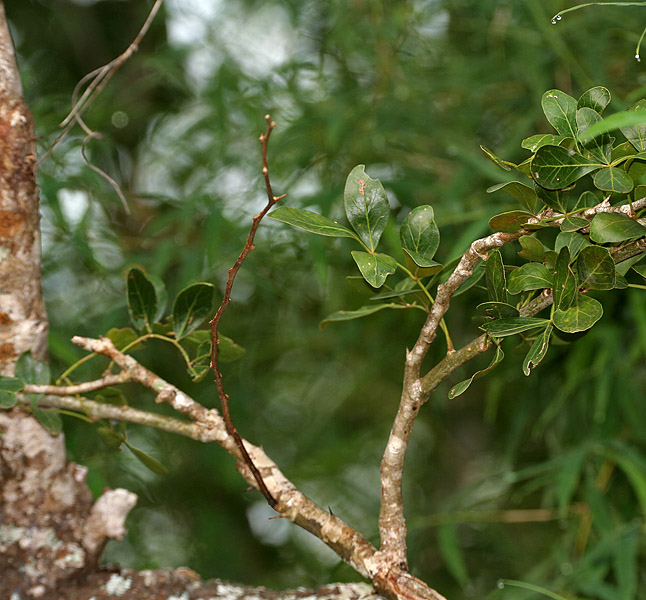 Wood-apple Limonia acidissima syn. Limonia elephantum at Talakona forest, in Chittoor District of Andhra Pradesh, India.